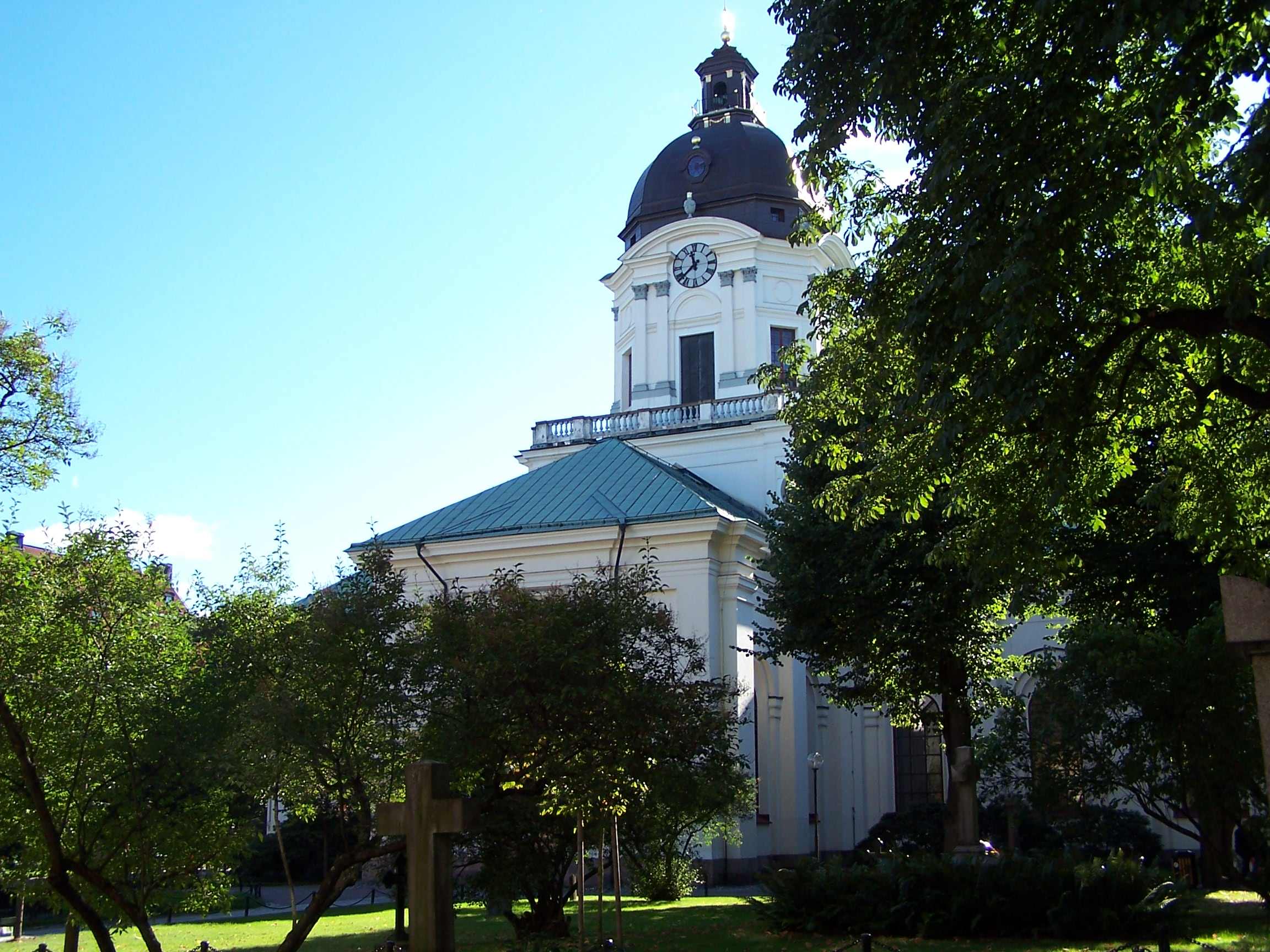 Exterior of Adolf Fredriks kyrka, Stockholm, Sweden